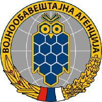 VOA emblem